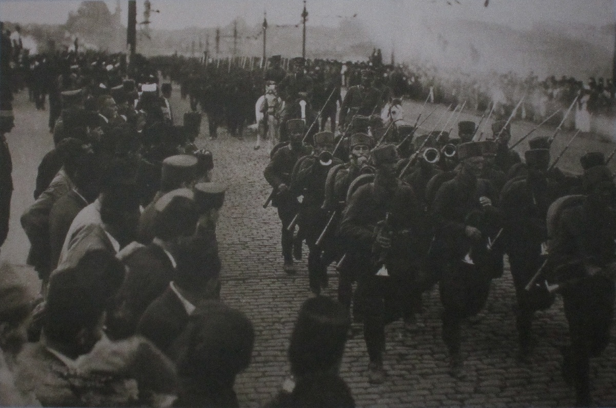 Liberation of Istanbul on October 6, 1923